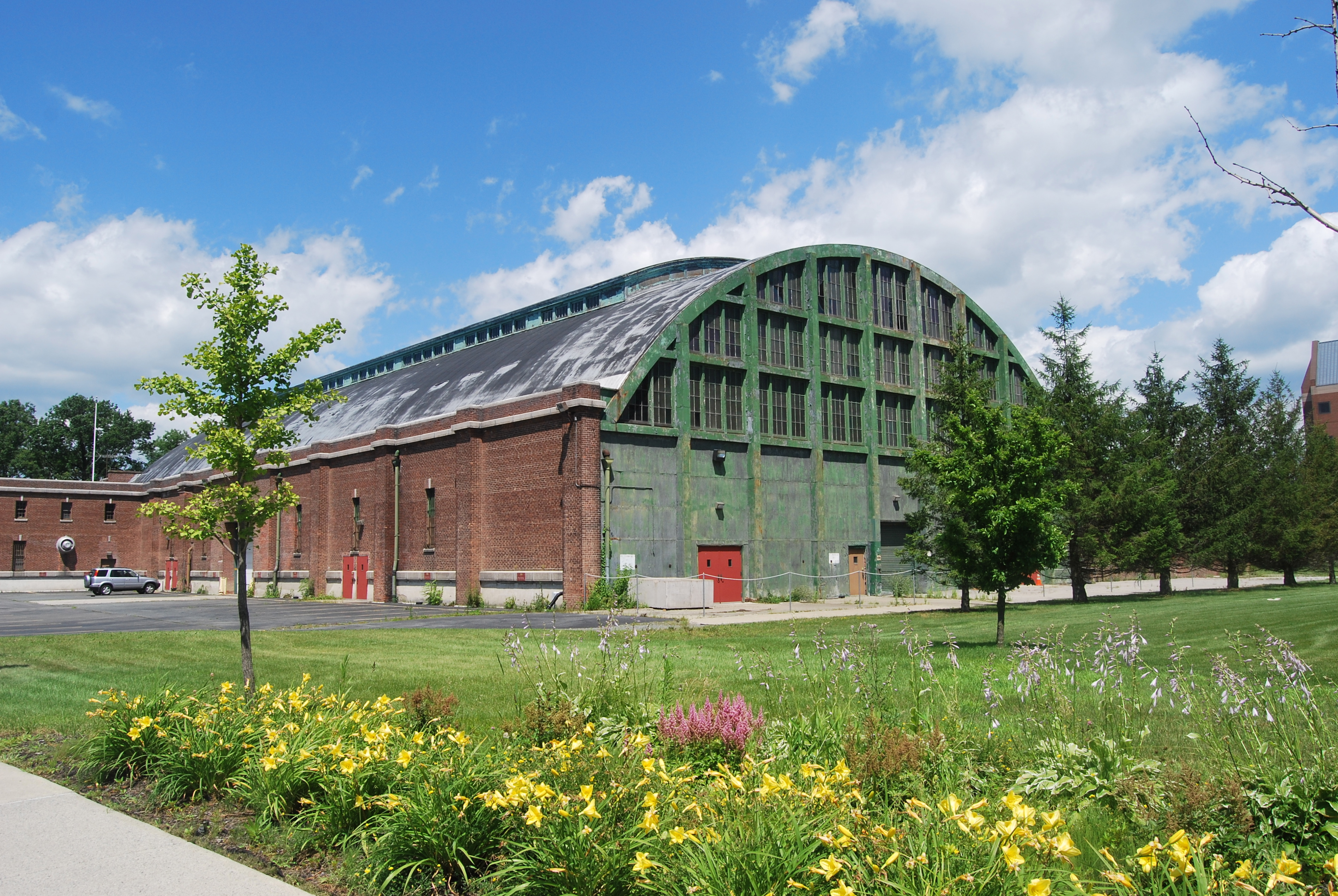 New Scotland Avenue (Troop B) Armory in Albany, New York